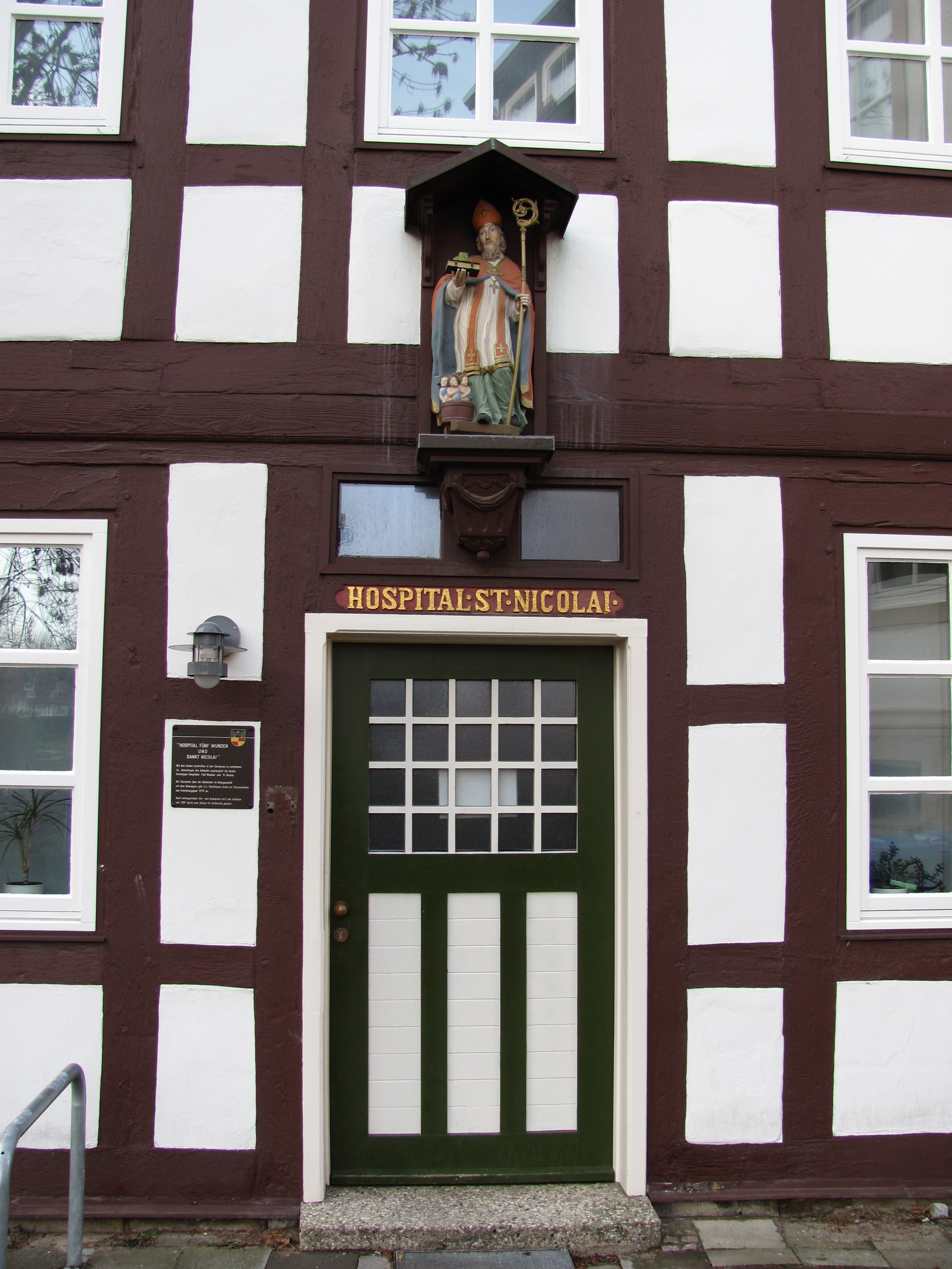 Former Hospital of the Five Wounds, built 1770, Hildesheim, Germany